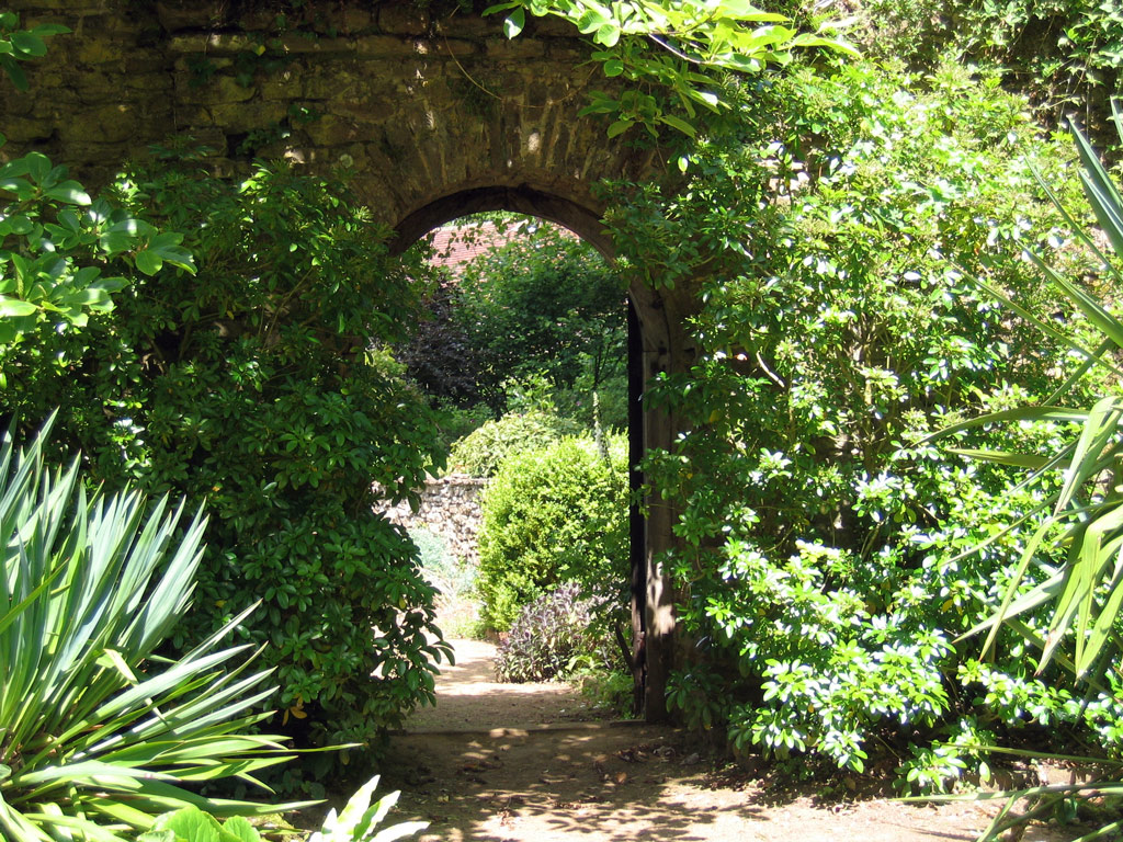 Munstead Wood - View through to the Summer Garden. For more information on Munstead Wood, This image is in copyright but published under a Creative Commons License with some rights reserved: you may use it on your website/blog provided you credit the photograph with a hyperlink to